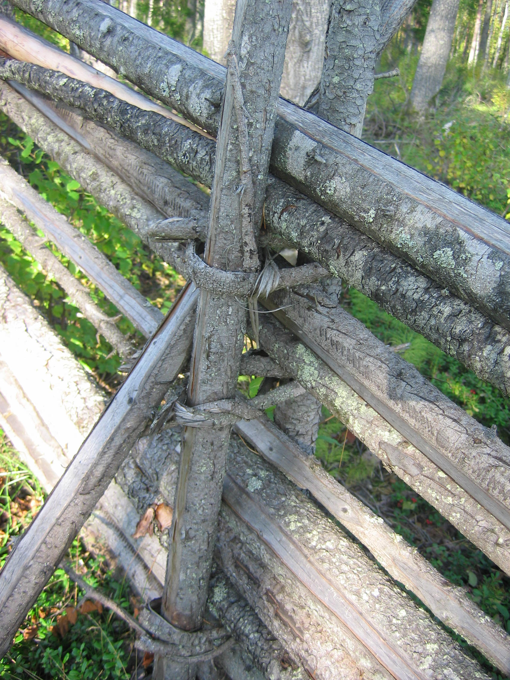 Wooden twigs used in an old-fashioned fence, in the Tiainen croft in Puolanka, Finland.